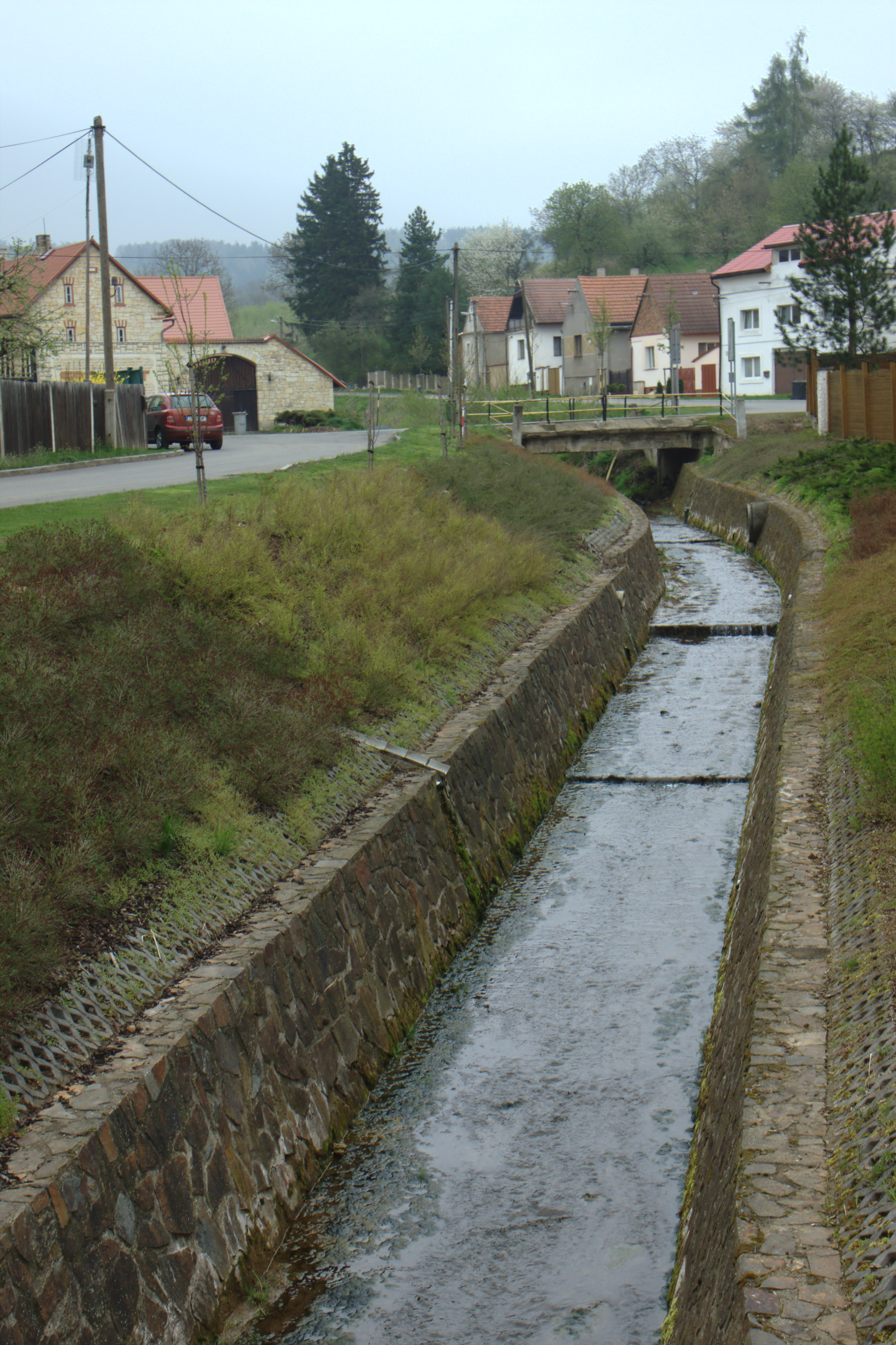 Town of Hředle in Rakovník District, Central Bohemian Region, CZ